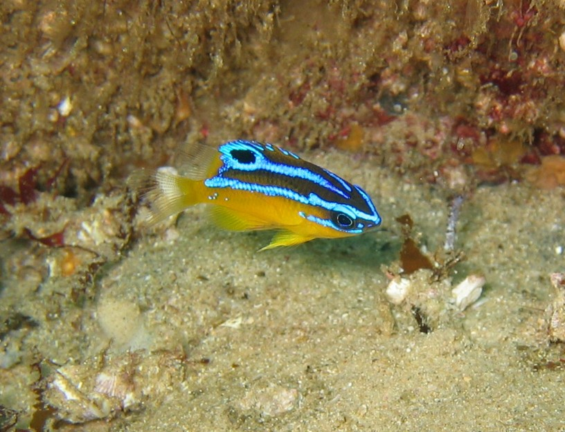 Juvenile White-ear Parma (Parma microlepis). Green Island, South West Rocks, NSW